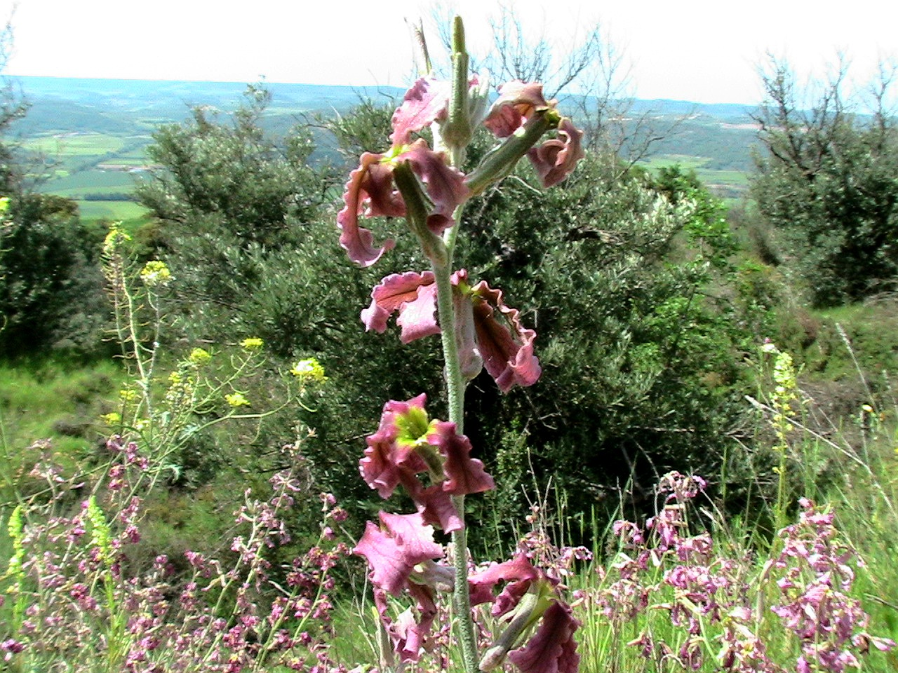 Matthiola fruticulosa. In Torà (Segarra-Catalunya). To 580 m. altitude